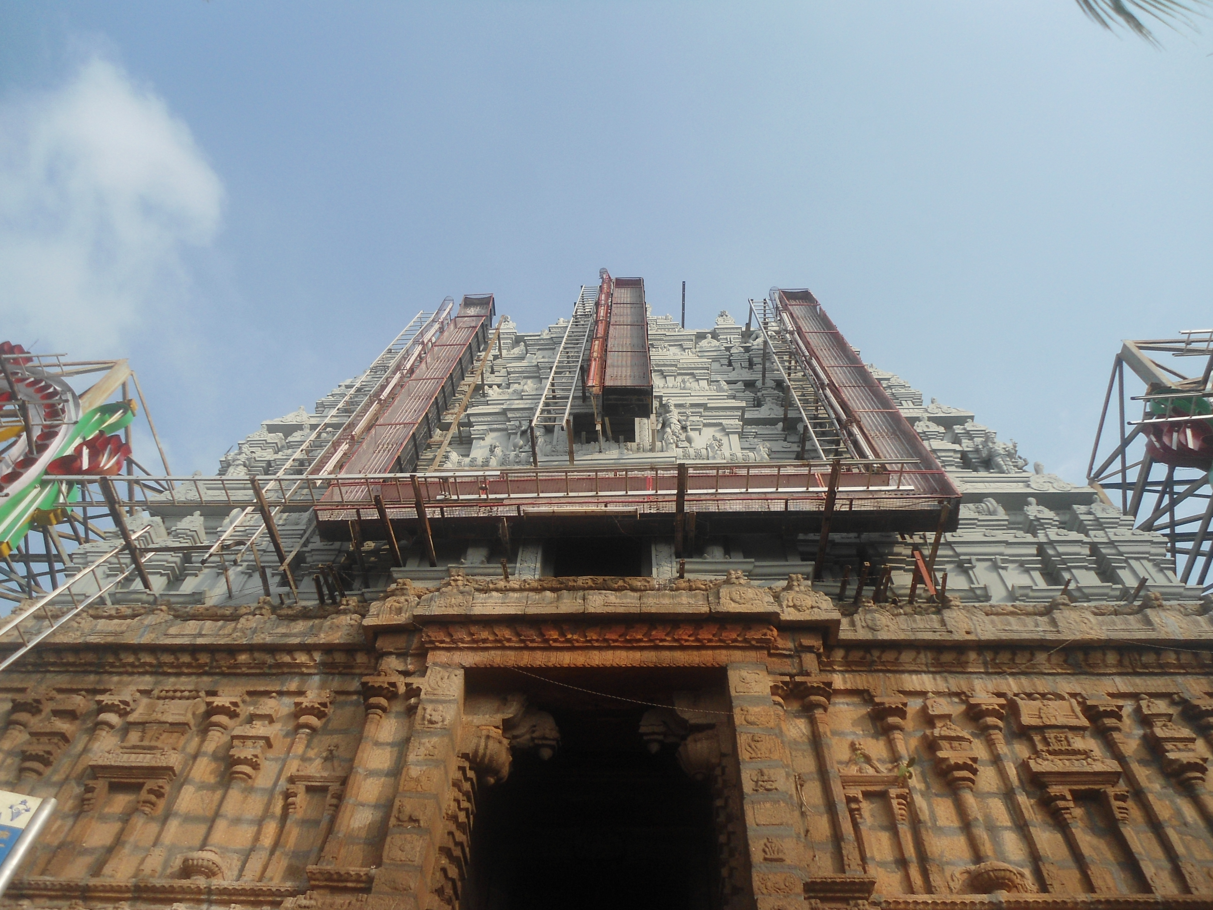 View of Gaali Gopuram on the walk way to Tirumala from Tirupathi locatedd on Tirumala Hills